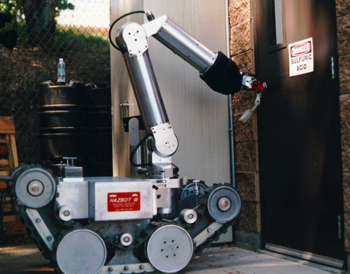 Hazbot III, Jet Propulsion Laboratory (JPL) used in stargate Stargate (film)